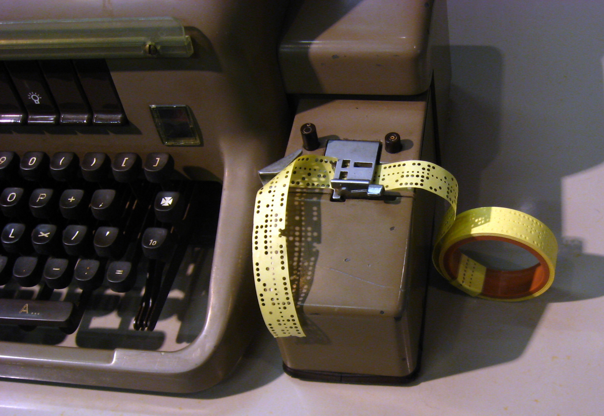 Perforated / punched tape